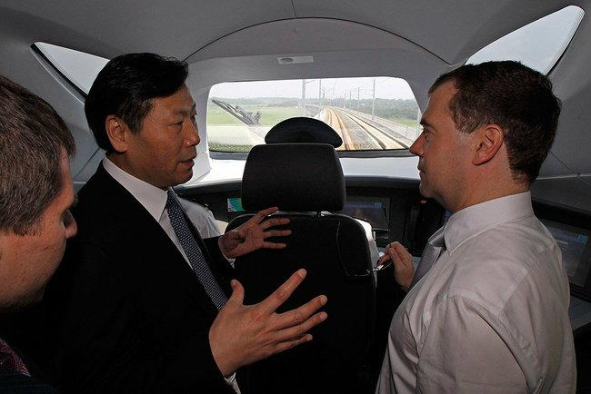 Inside a Chinese high-speed train on the way to the Boao Forum for Asia.